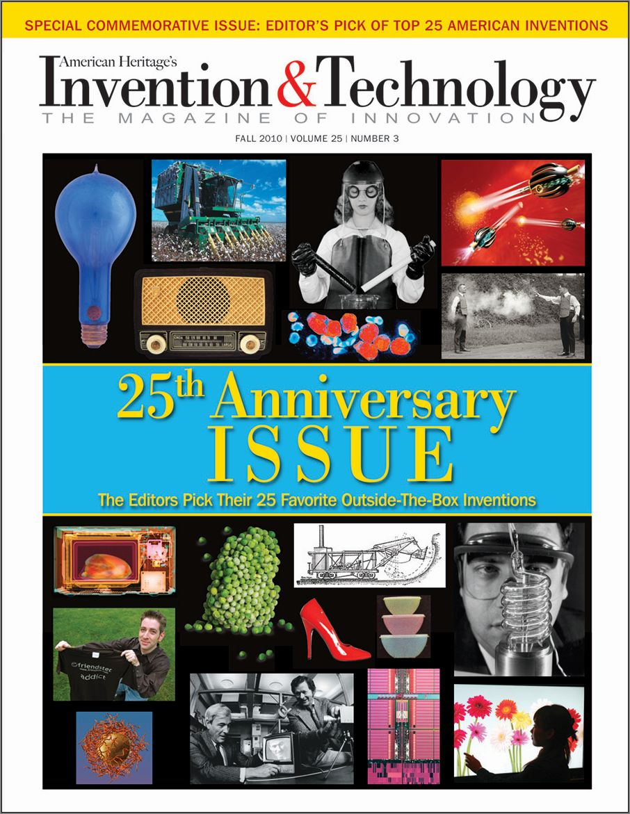 Cover image of 25th Anniversary Issue of Invention & Technology